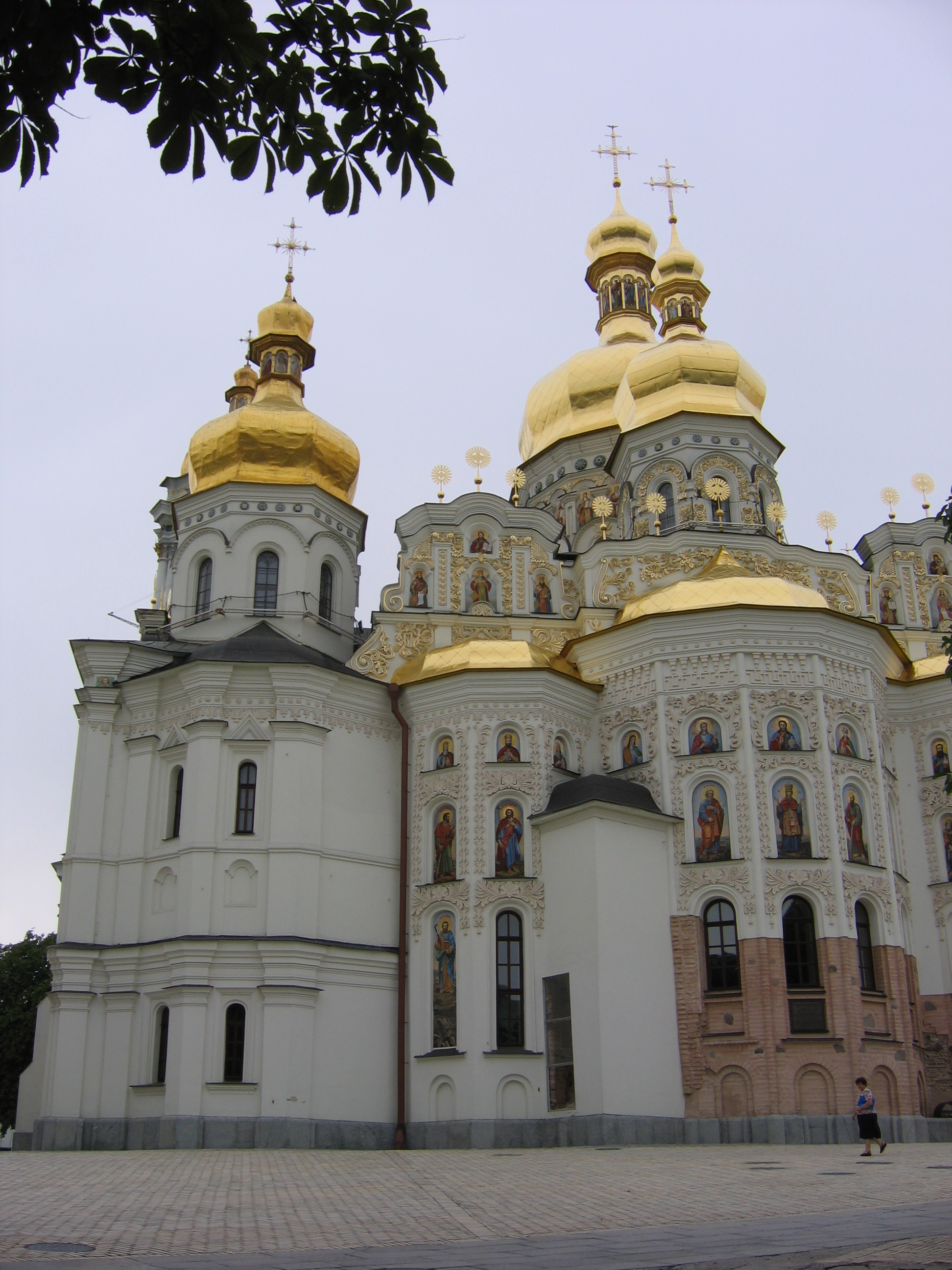 Kiev Pechersk Lavra (Kiev, Ukraine)